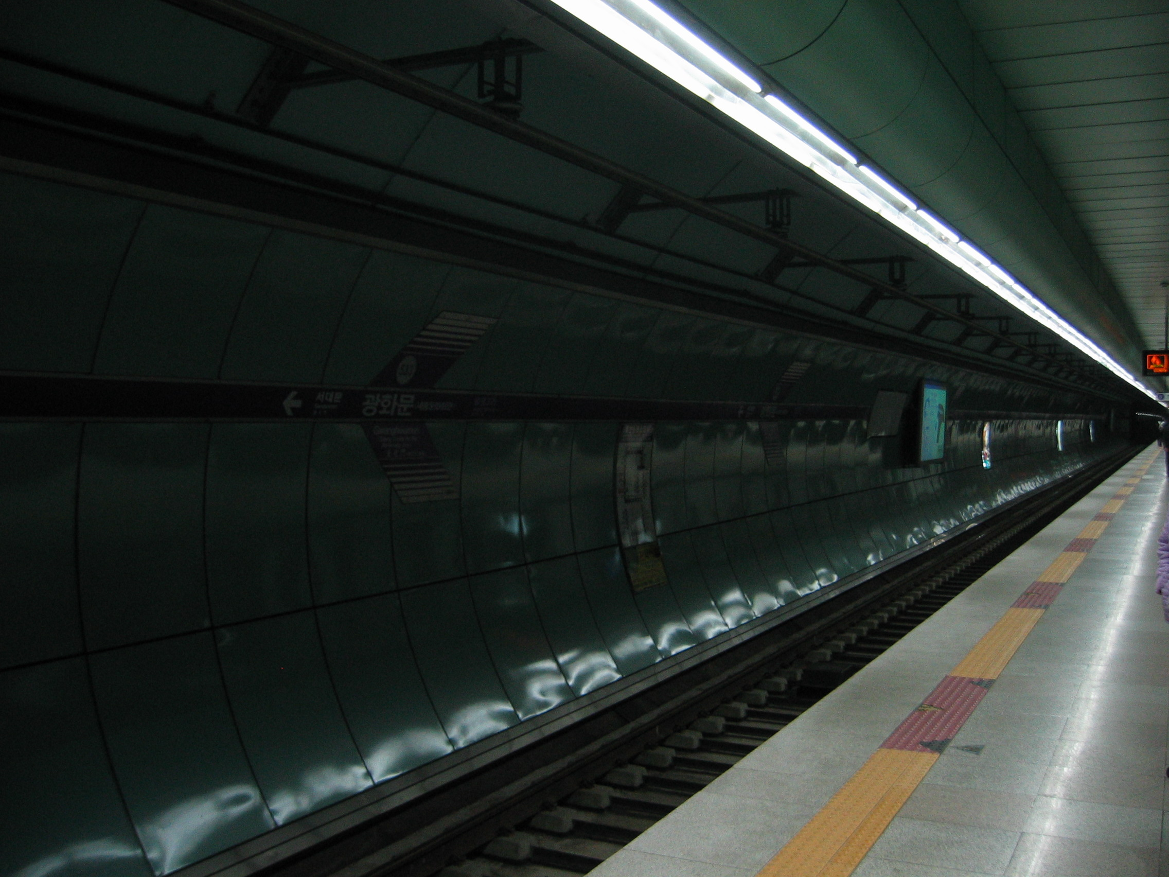 The platform of Gwanghwamun Station, Seoul Subway line 5